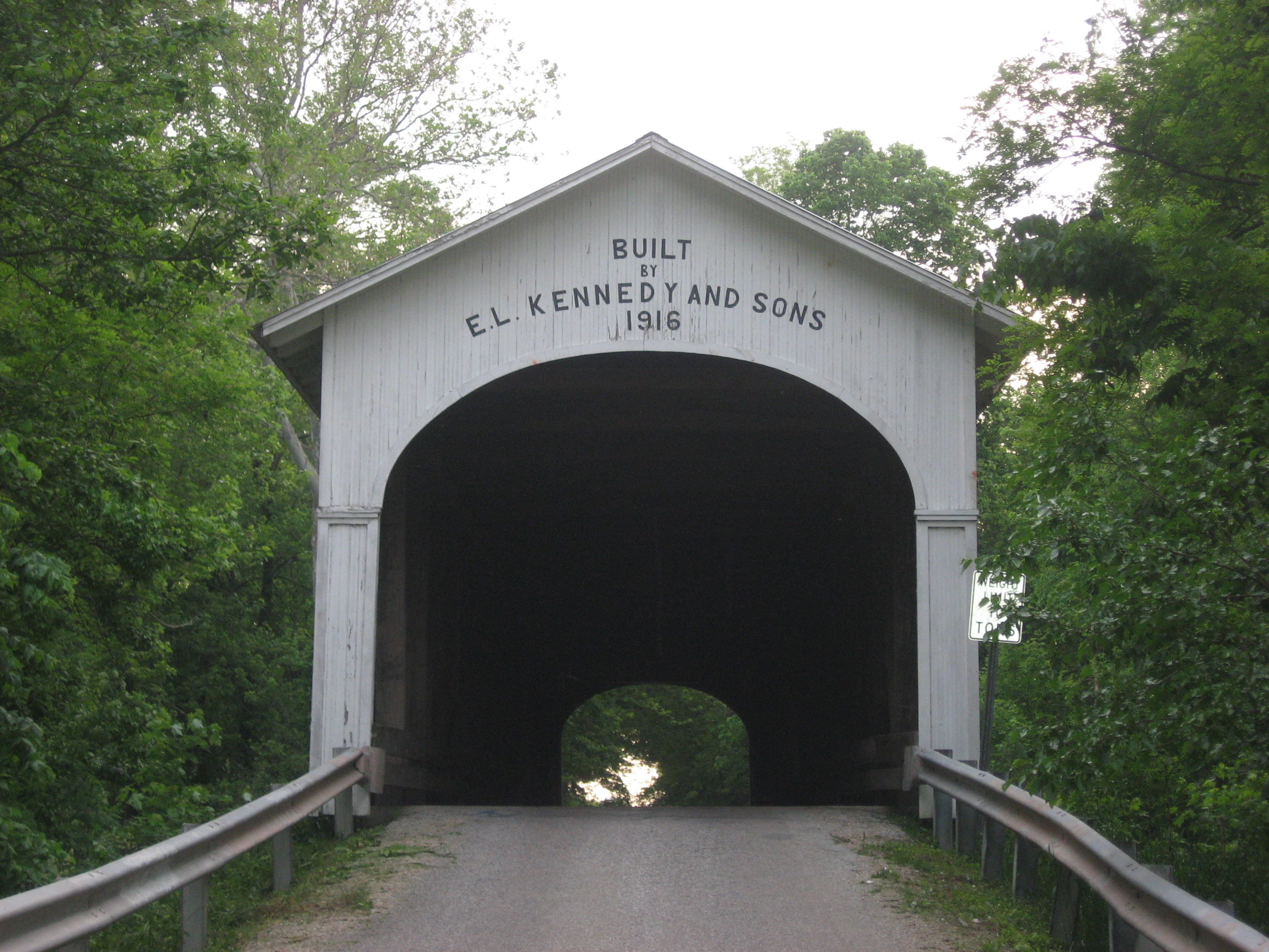 Eastern portal of the Norris Ford Covered Bridge, which carries County Road 150N over the Flatrock River northeast of Rushville in Rushville Township, Rush County, Indiana, United States. Built in 1916, it is listed on the National Register of Historic Places.